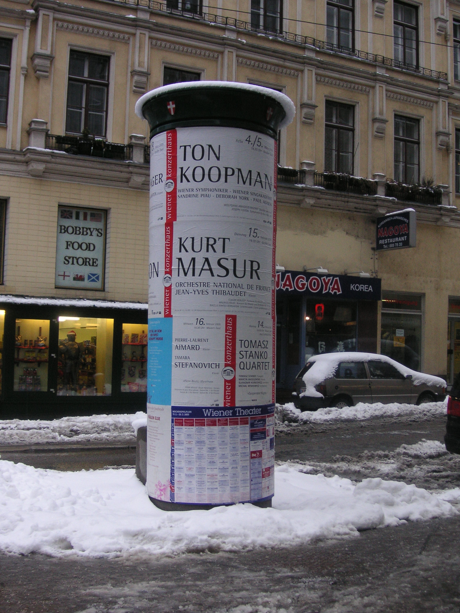 A Litfaßsäule in Wieden, Vienna's 4th district. One of the advertisements is for a concert with Kurt Masur; at the bottom there is the weekly programme of the theatres of Vienna. At the very top of the column Vienna's coat of arms signifies that this is municipal property. By the way, Bobby's Food Store in the background is one of the few places in Vienna where one can buy British food imports (biscuits, sweets, soft drinks, beer, tea, etc. etc.)—despite its US-sounding name.